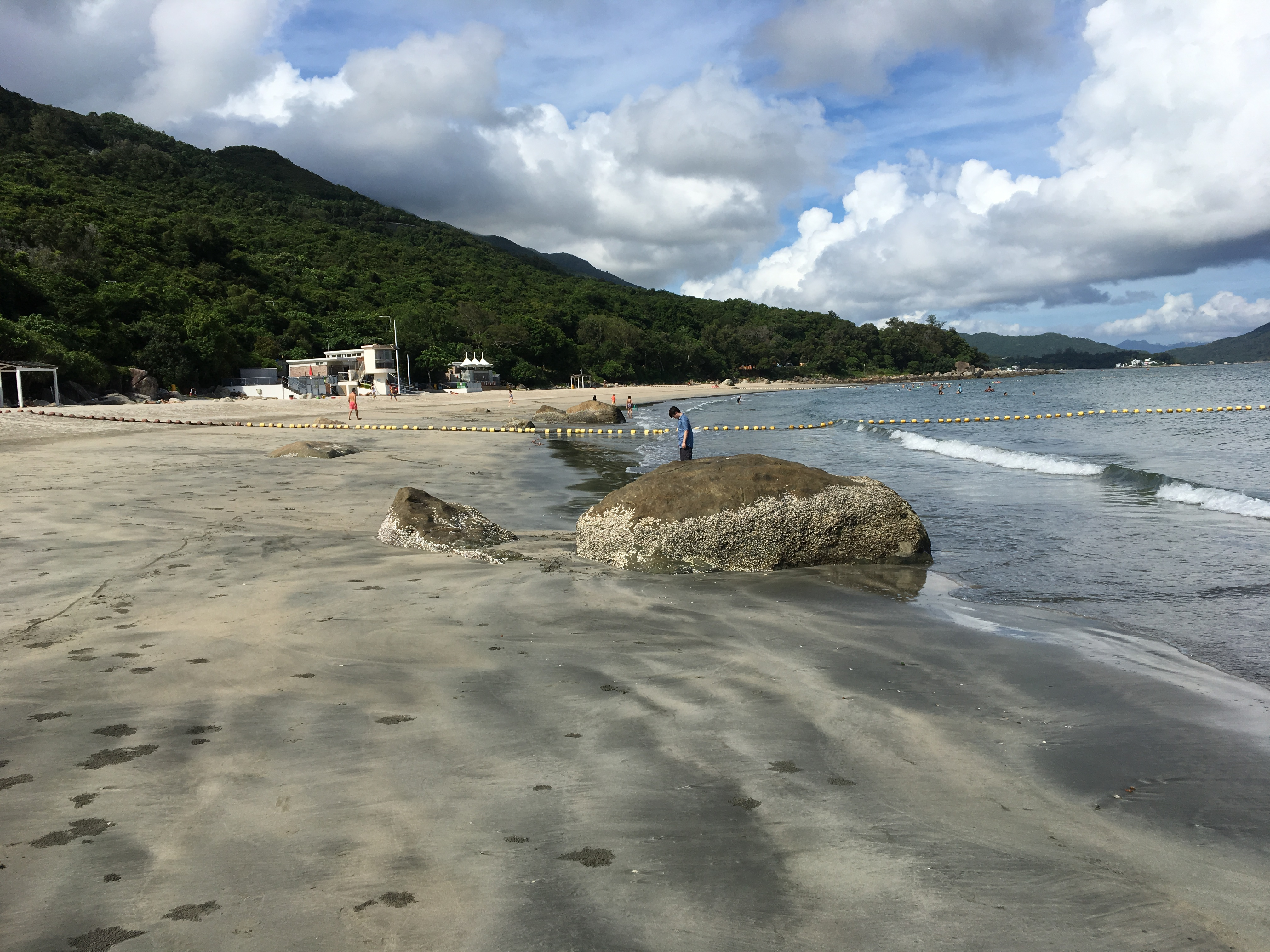 Quiet afternoon on Tong Fuk Beach on Lantau Island, Hong Kong